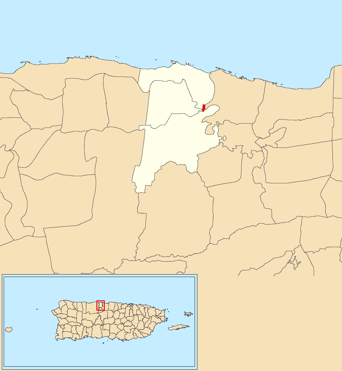 Barceloneta barrio-pueblo, Barceloneta, Puerto Rico locator map